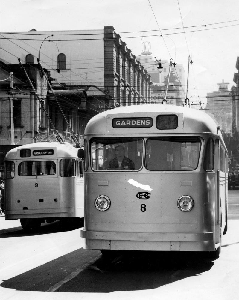 Two of the new Brisbane trolleybuses on the route from the Gardens to Gregory Terrace. The trolleybus chassis were English-built Sunbeam MF2Bs, under locally built bodies.